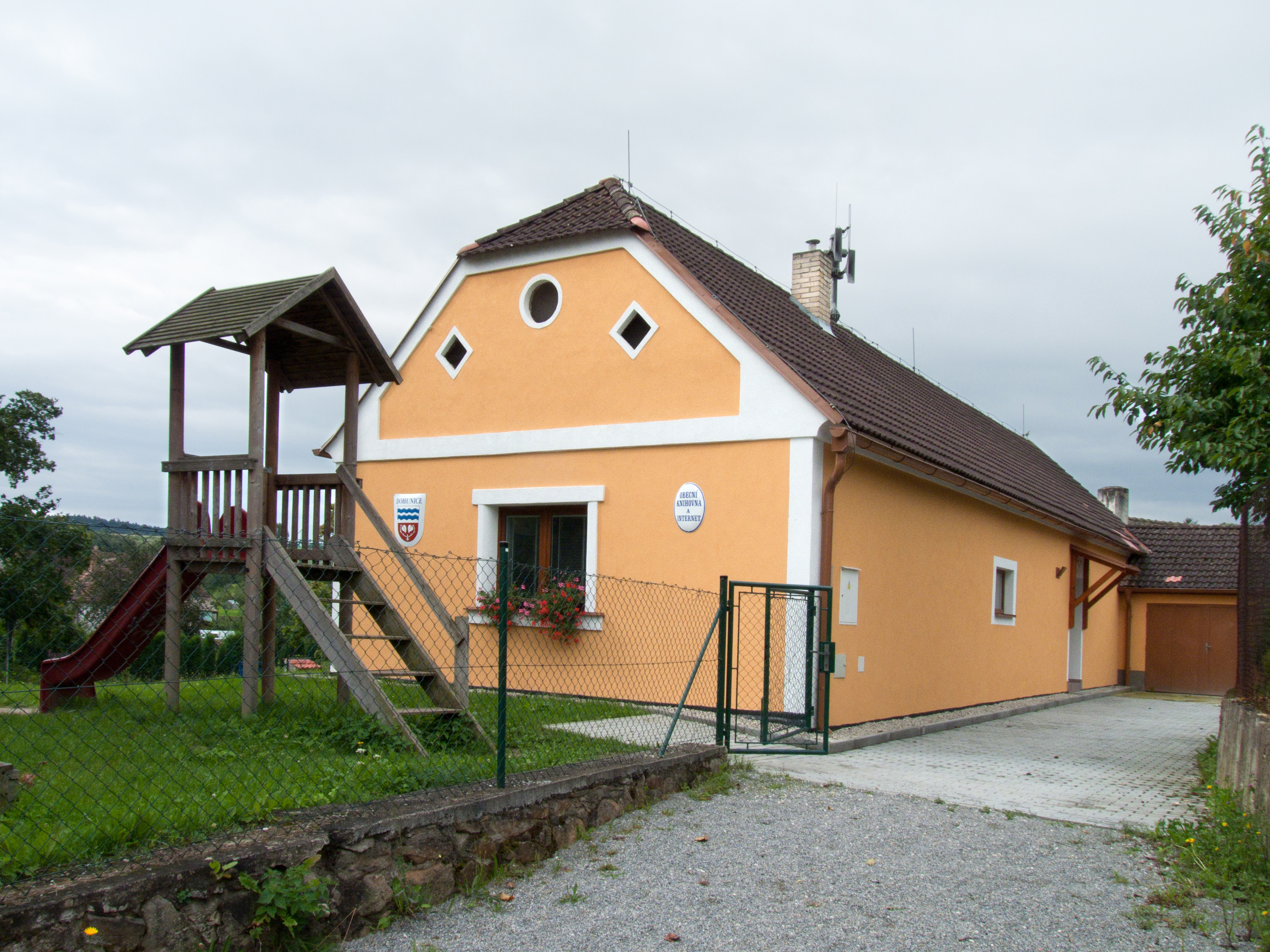 Local library, house No 31 in the village of Bohunice, České Budějovice District, Czech Republic